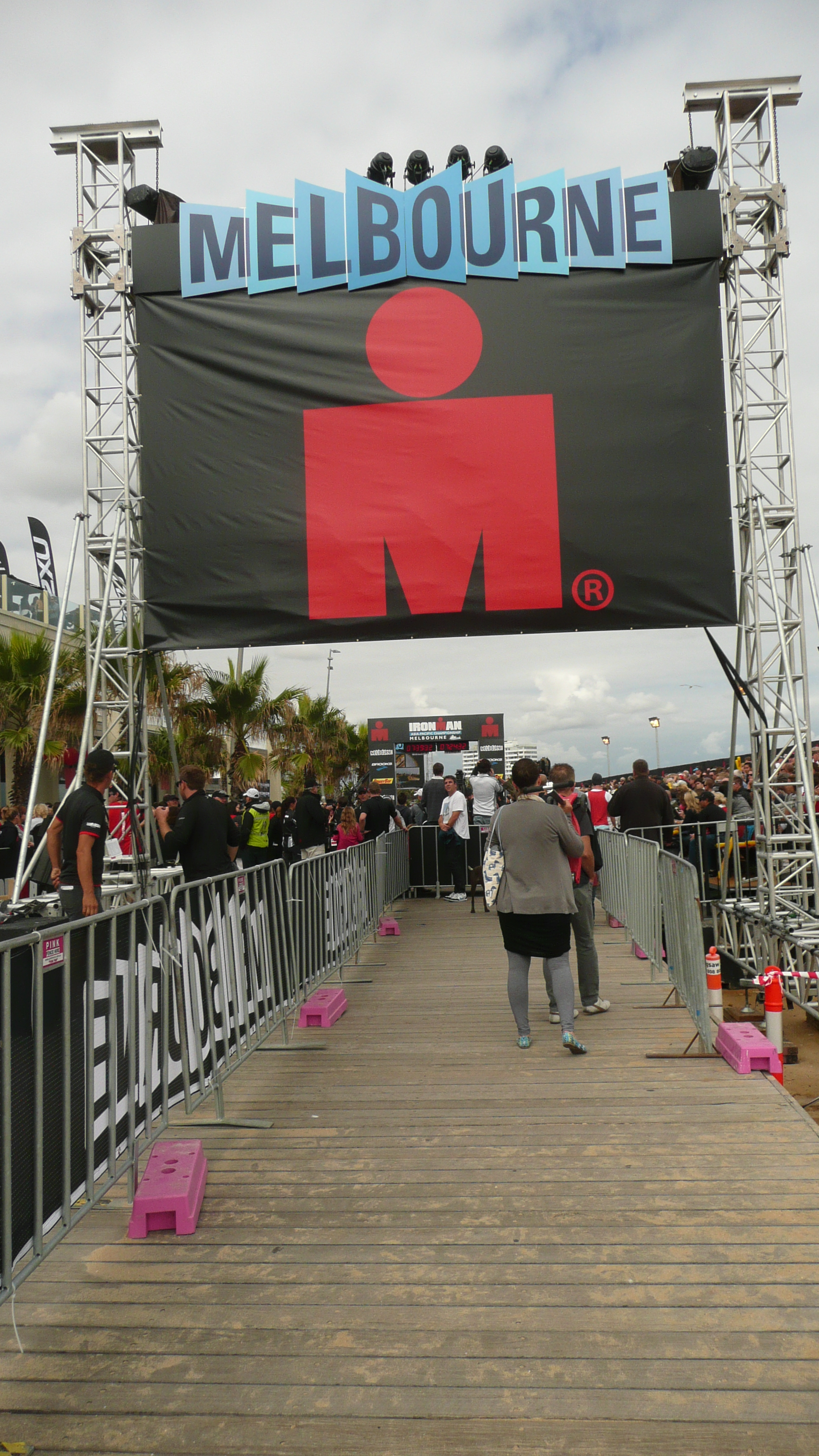 The finishing shute at Ironman Melbourne